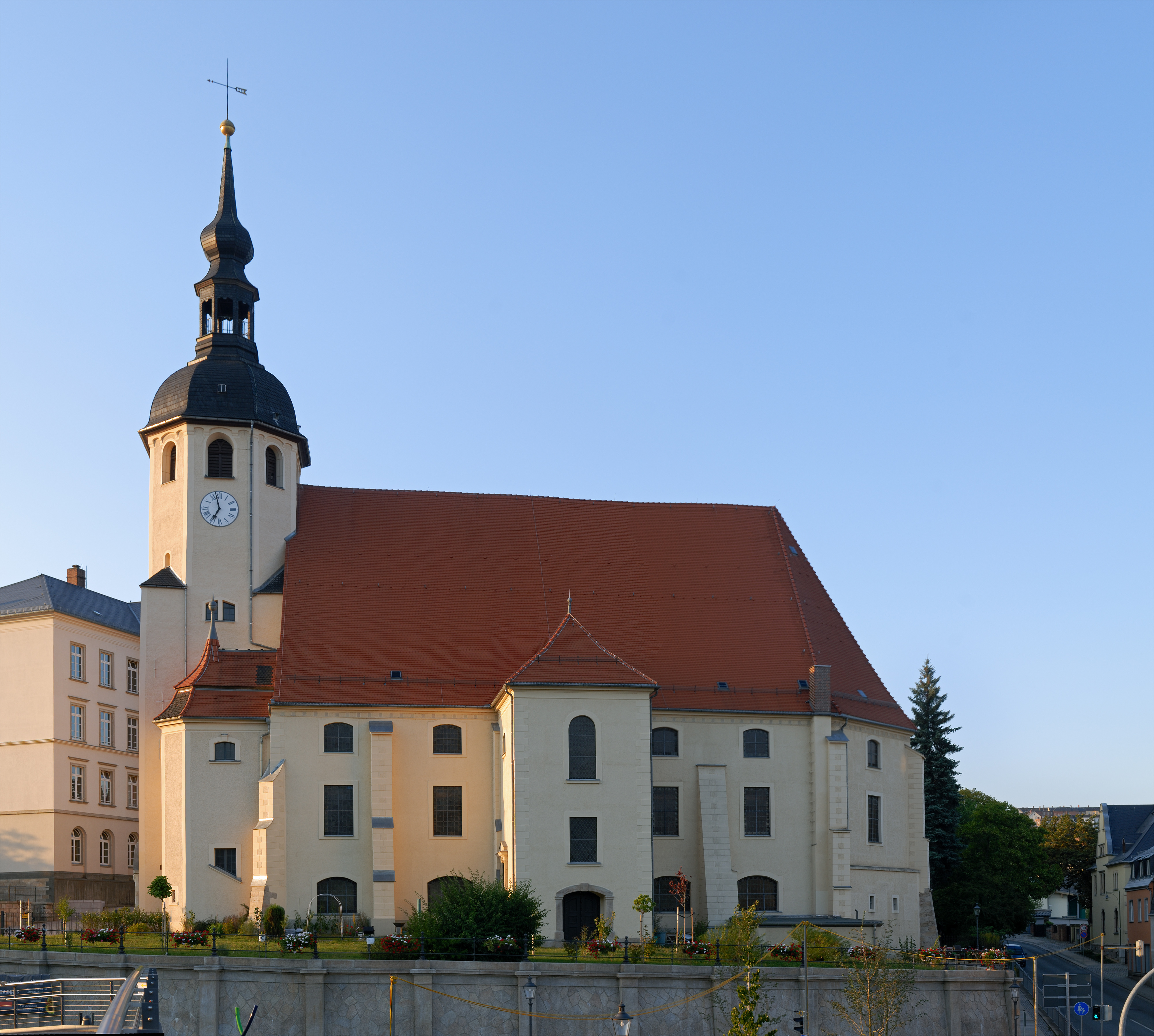 This image shows the Peter Paul church in Reichenbach, Germany. It is a ten segment panoramic image.